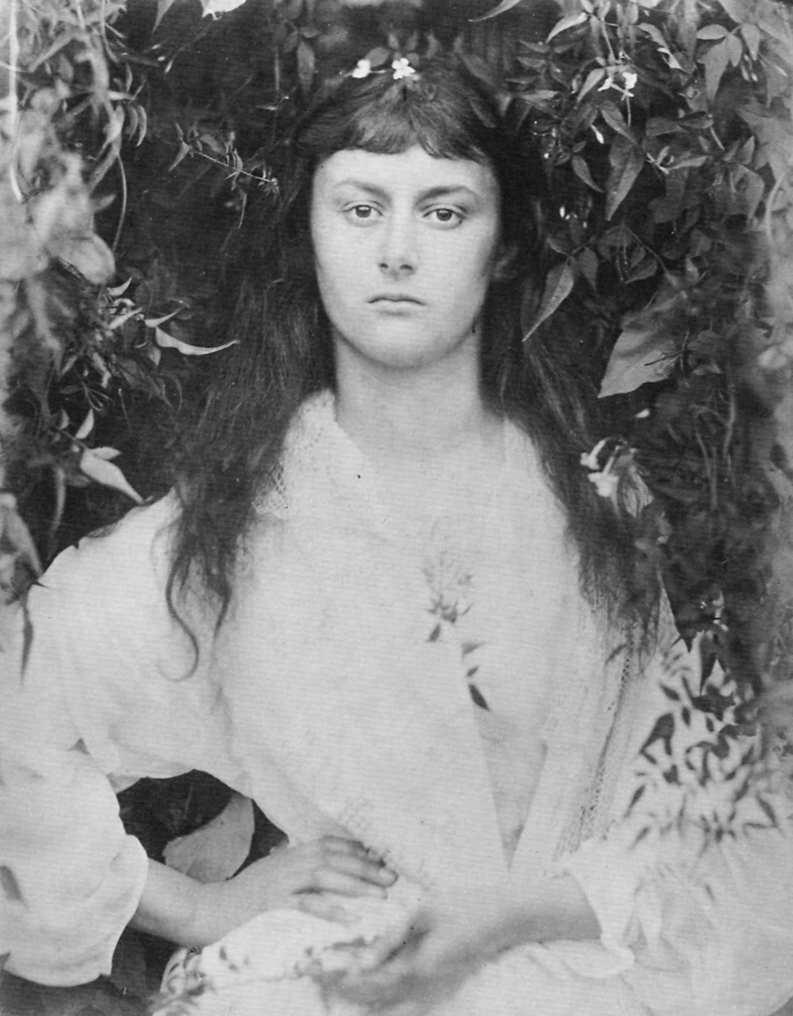 Julia Margaret Cameron: Photographic study "Pomona" (Alice Liddell as a young woman).